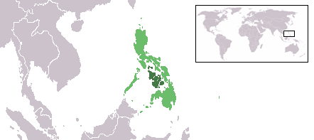 Map of Federal state of Visayas in green and the rest of the territory claimed by the First Philippine Republic in light green. C. 1898